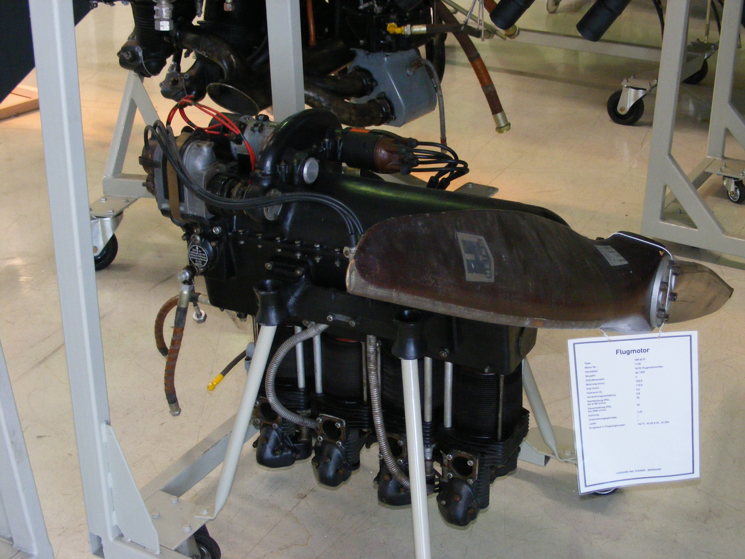 Hirth HM 60 at aviaticum museum, Austria